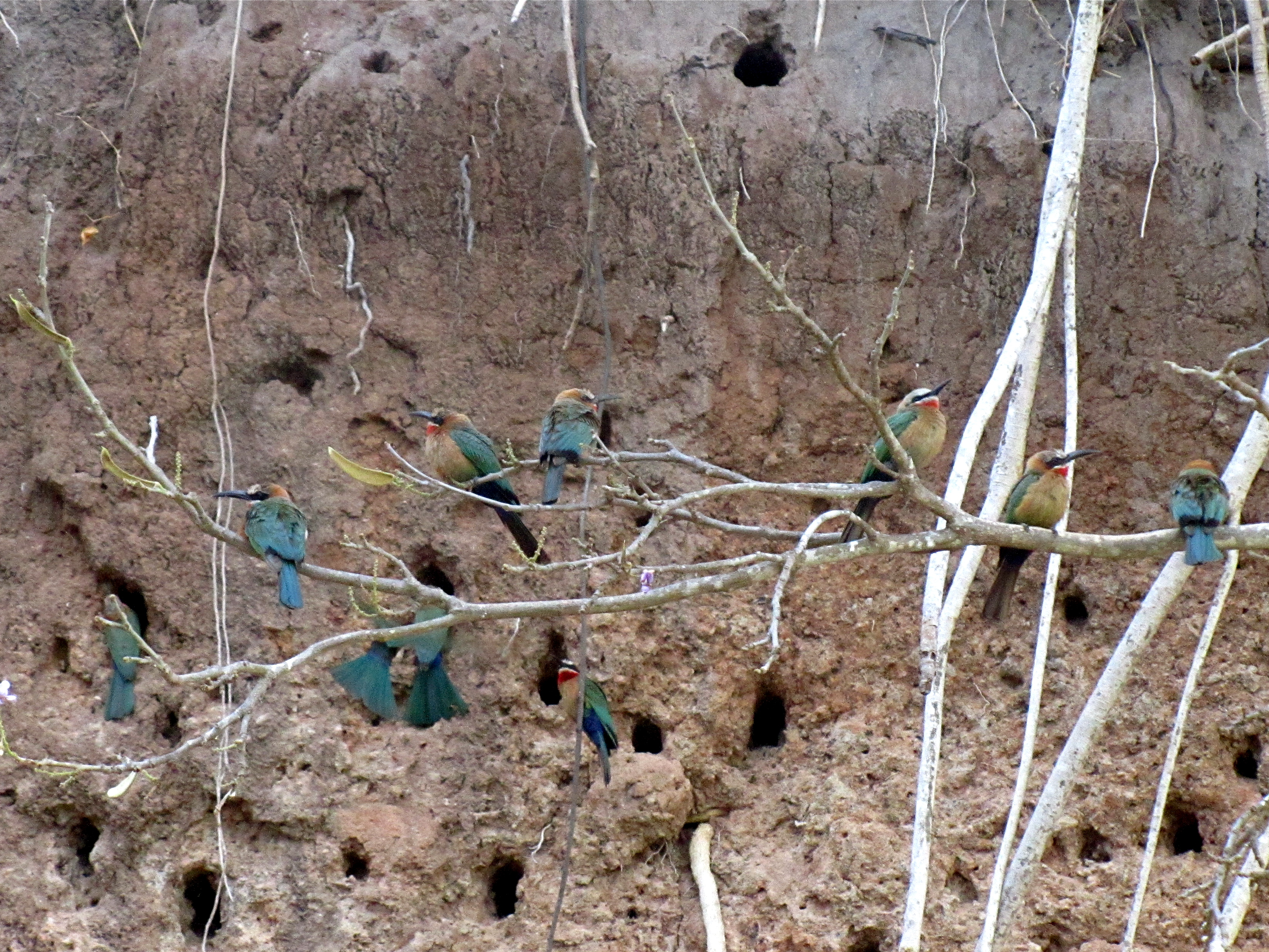 White-fronted Bee-eaters and their nests in Selous Game Reserve, Tanzania.